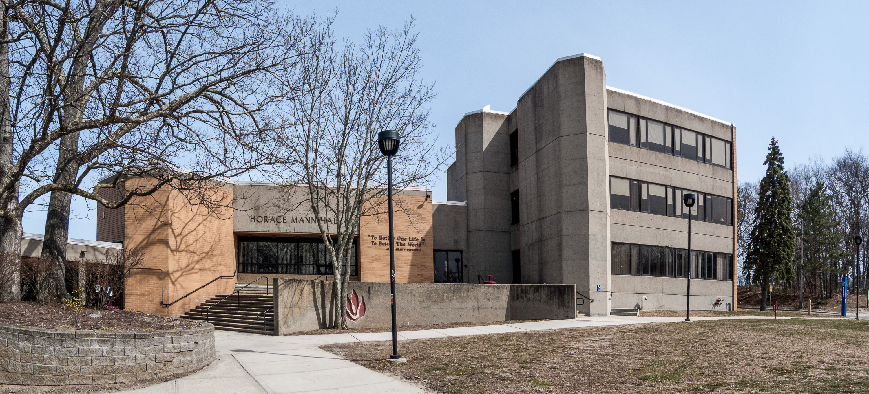 Rhode Island College, Providence RI